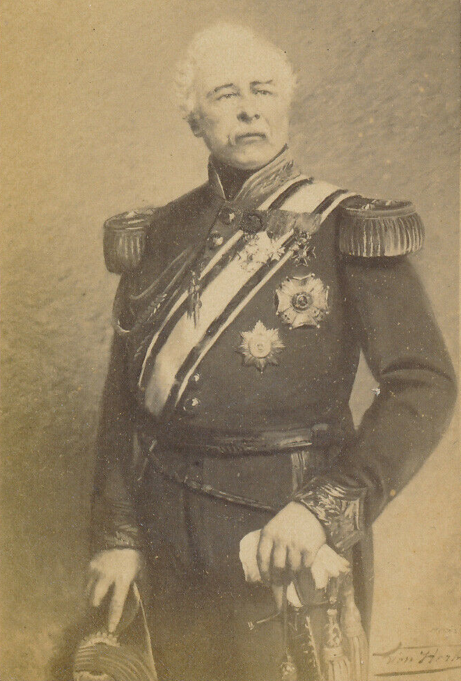 Général Omer Ablay